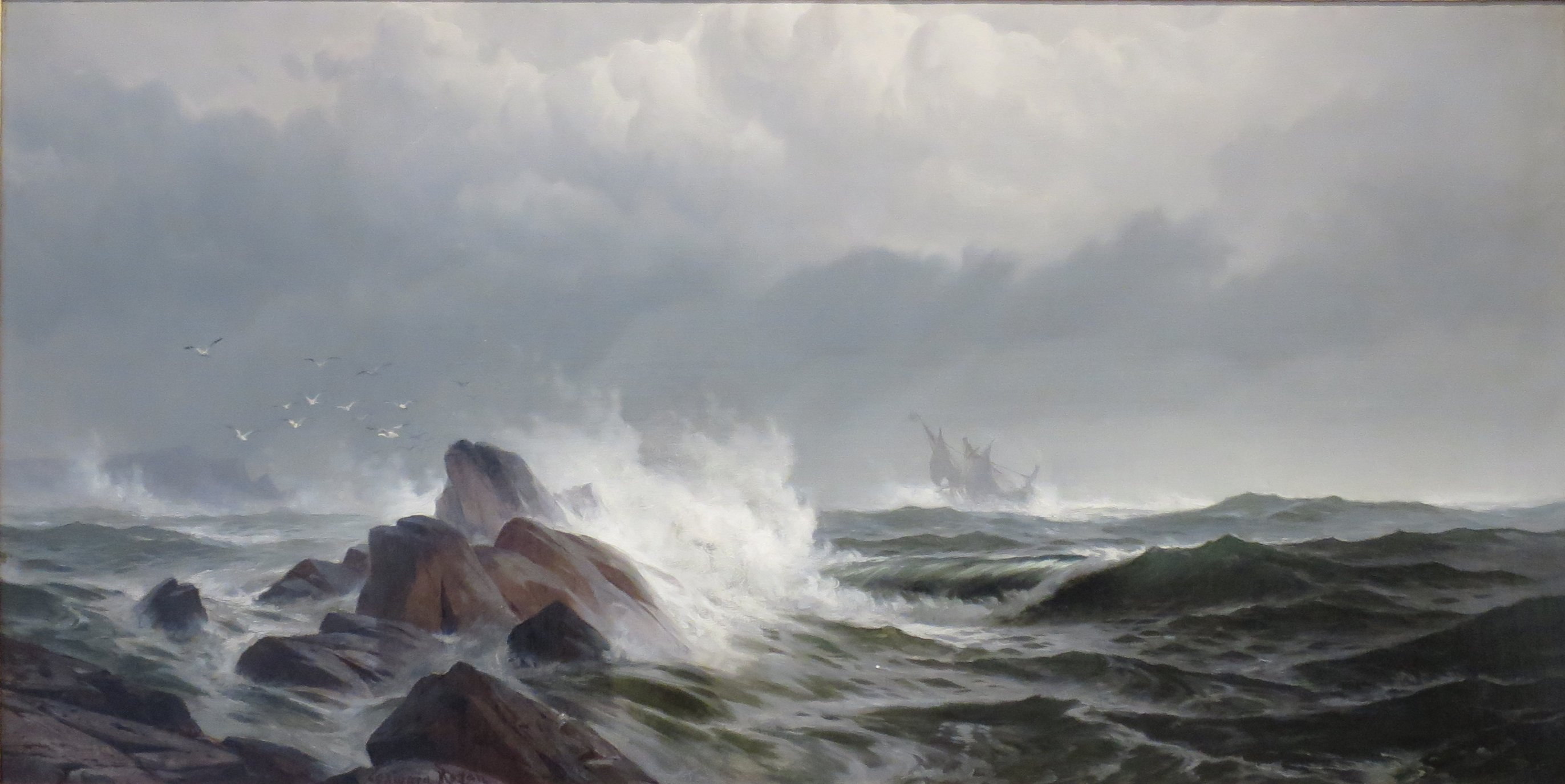 Off Norman's Woe